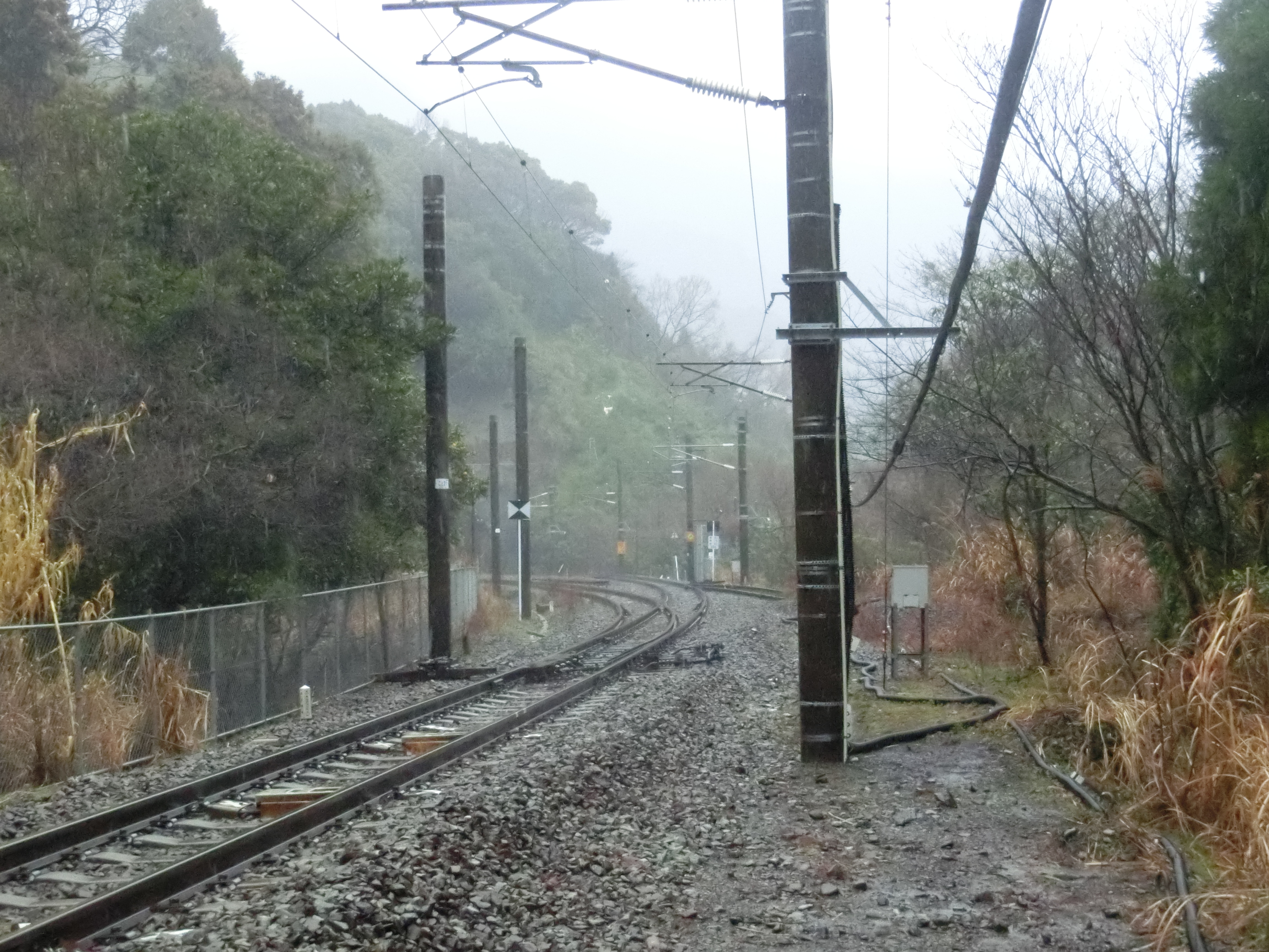 View of Tokuura Signal Base in Tsukumi City, Oita Prefecture, from Tsukumi Station side